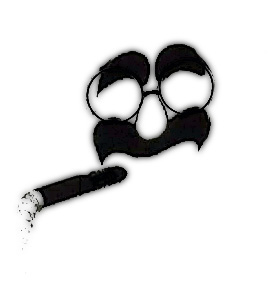 Self-made caricature of Groucho Marx.